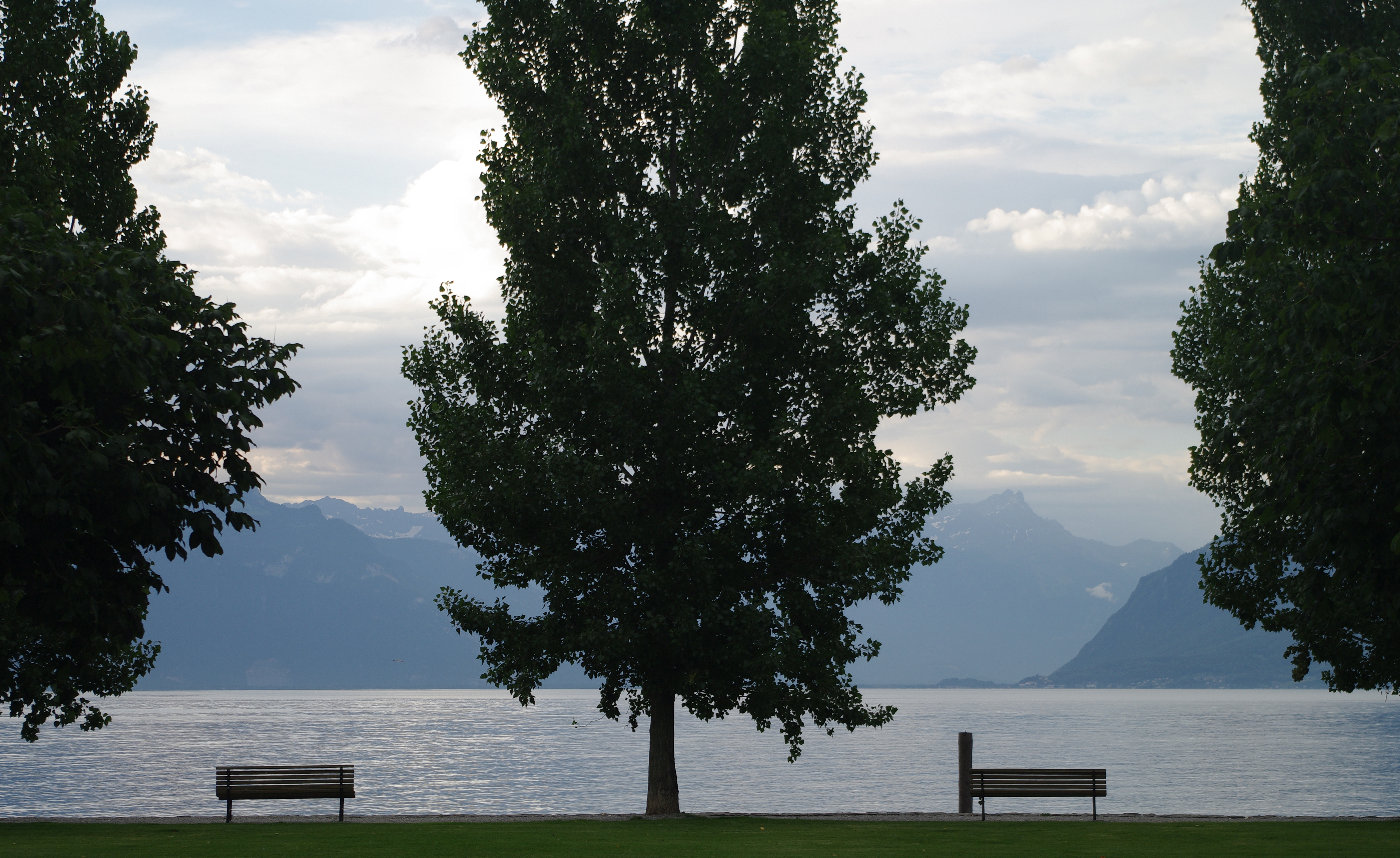 A morning view of Lake Geneva from Place d'Armes in Cully, Switzerland.